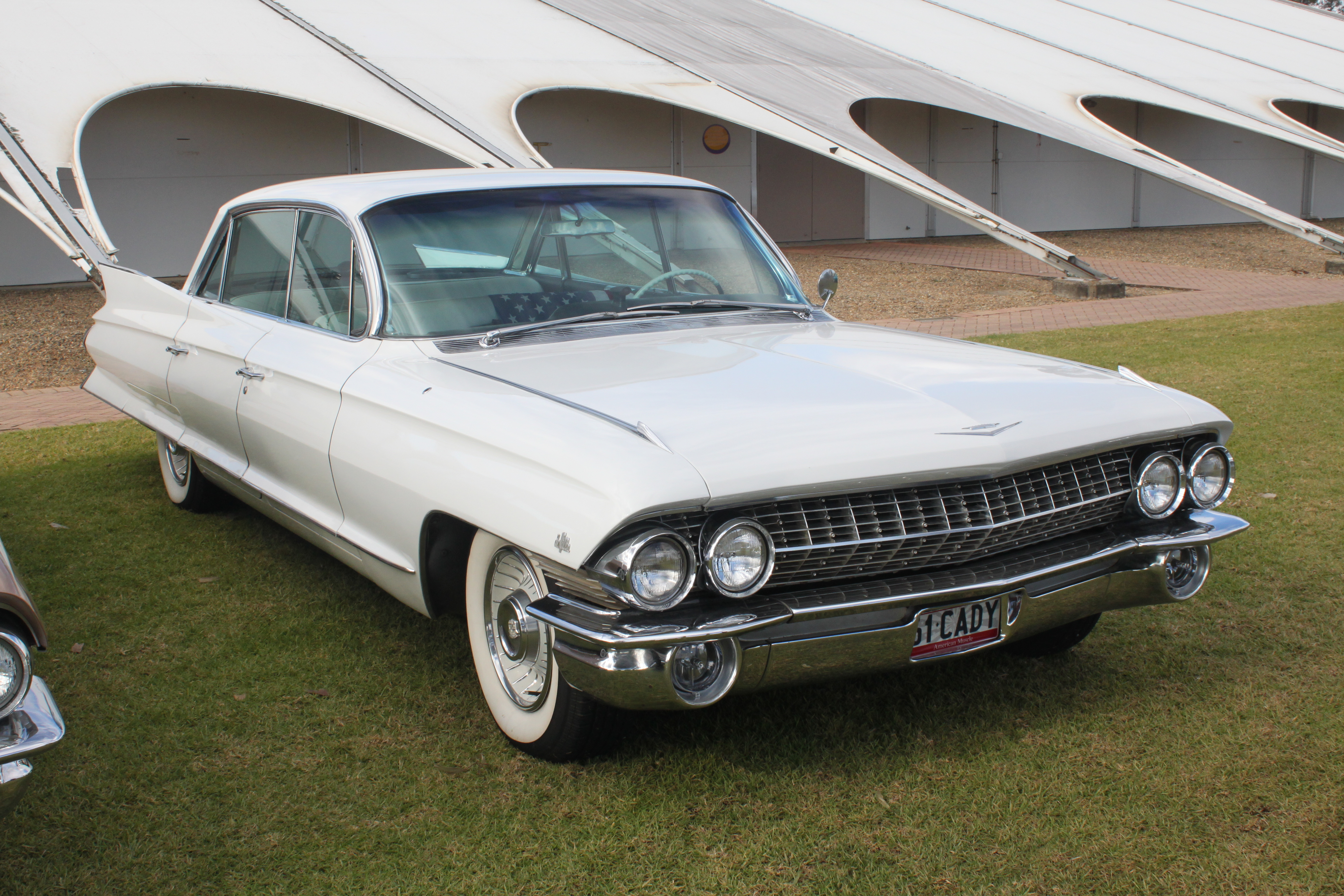 GM Display Day, Penrith Panthers, NSW July 2015